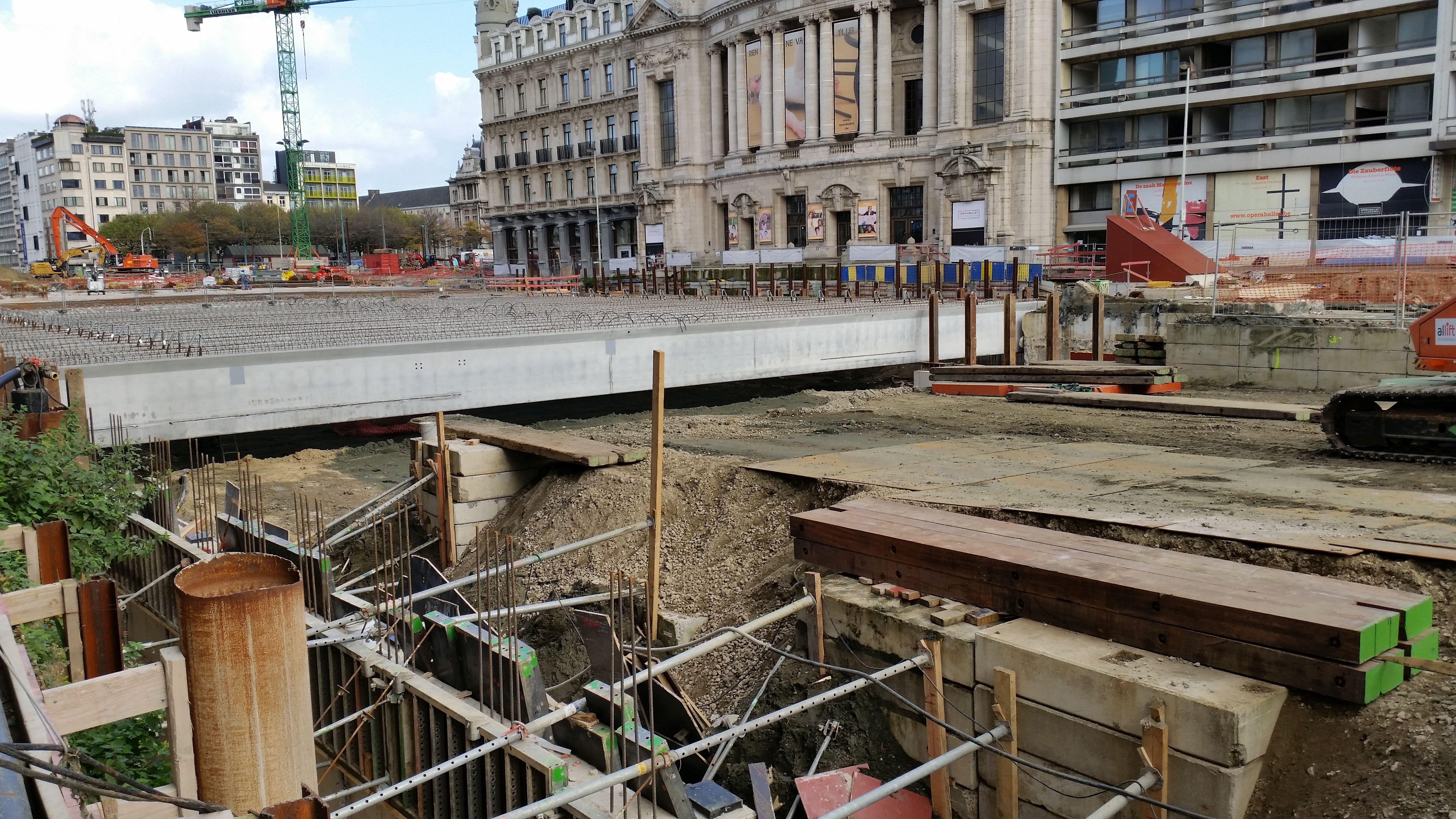 Redevelopment works of Opera Square in Antwerp, Belgium, within the frame of Noorderlijn project. Picture taken on October 29, 2017.